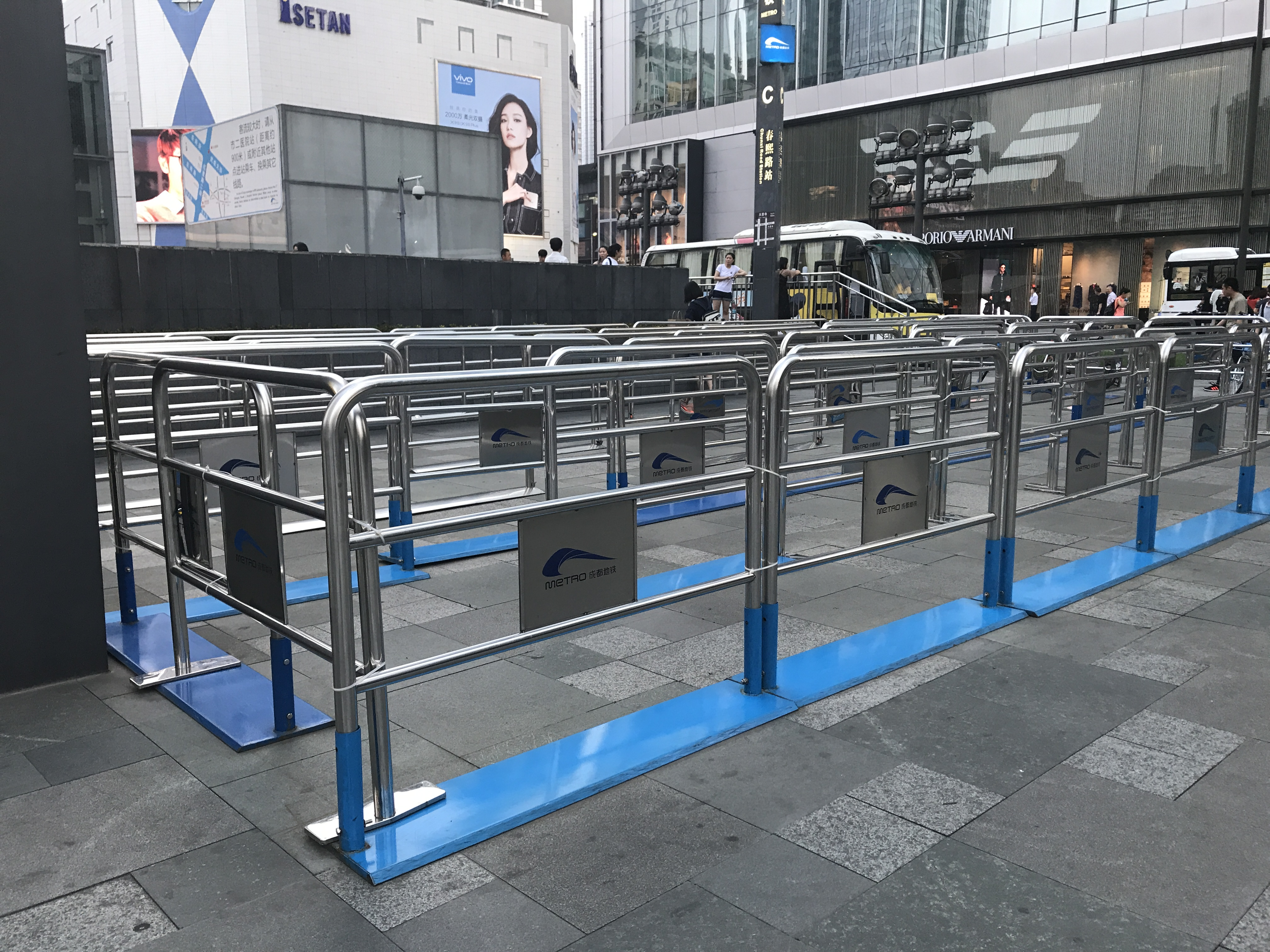 Queue Area outside Entrance C of Chunxi Road Station, Chengdu Metro